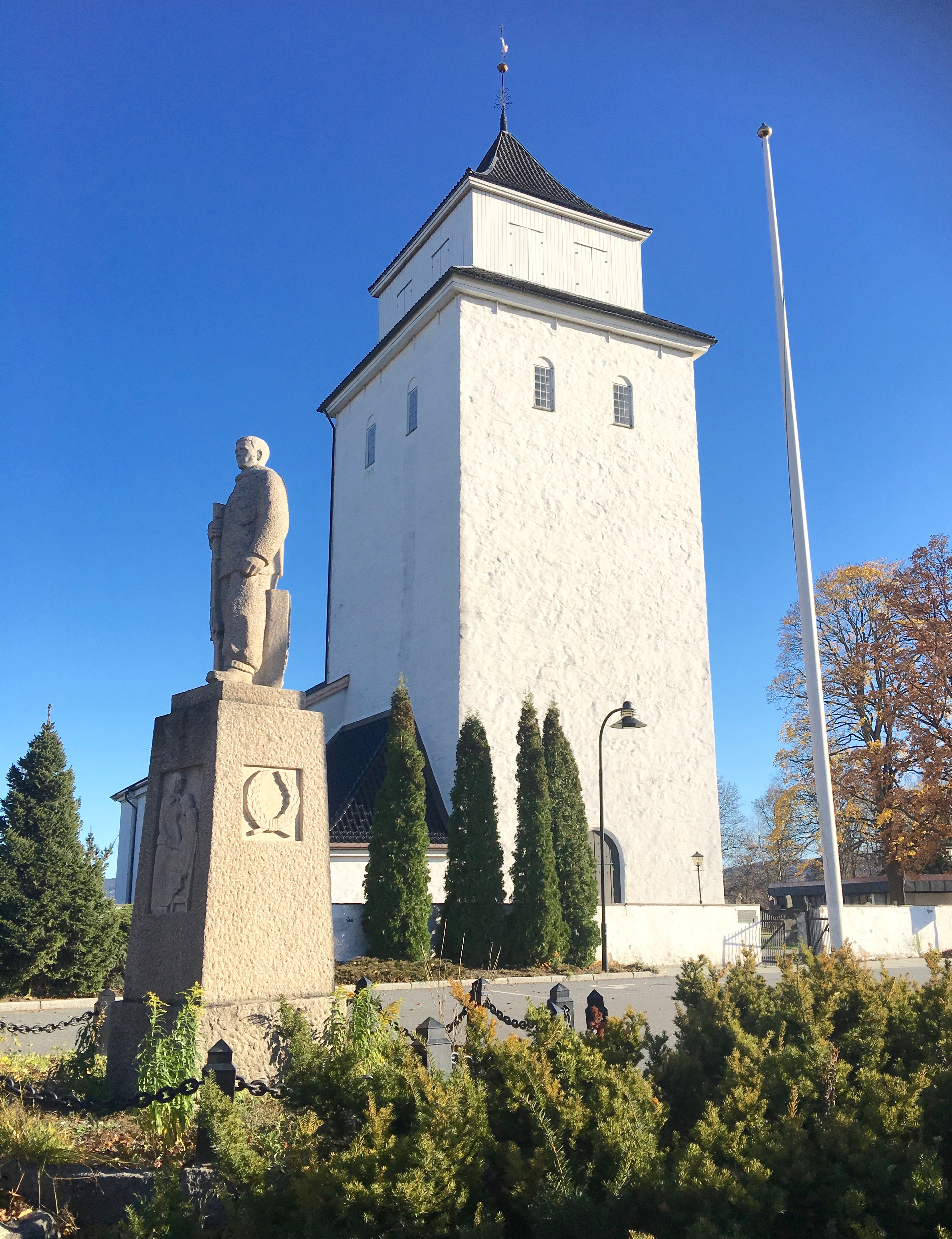 World War II memorial by Haug Church in Buskerud, Norway October 2016